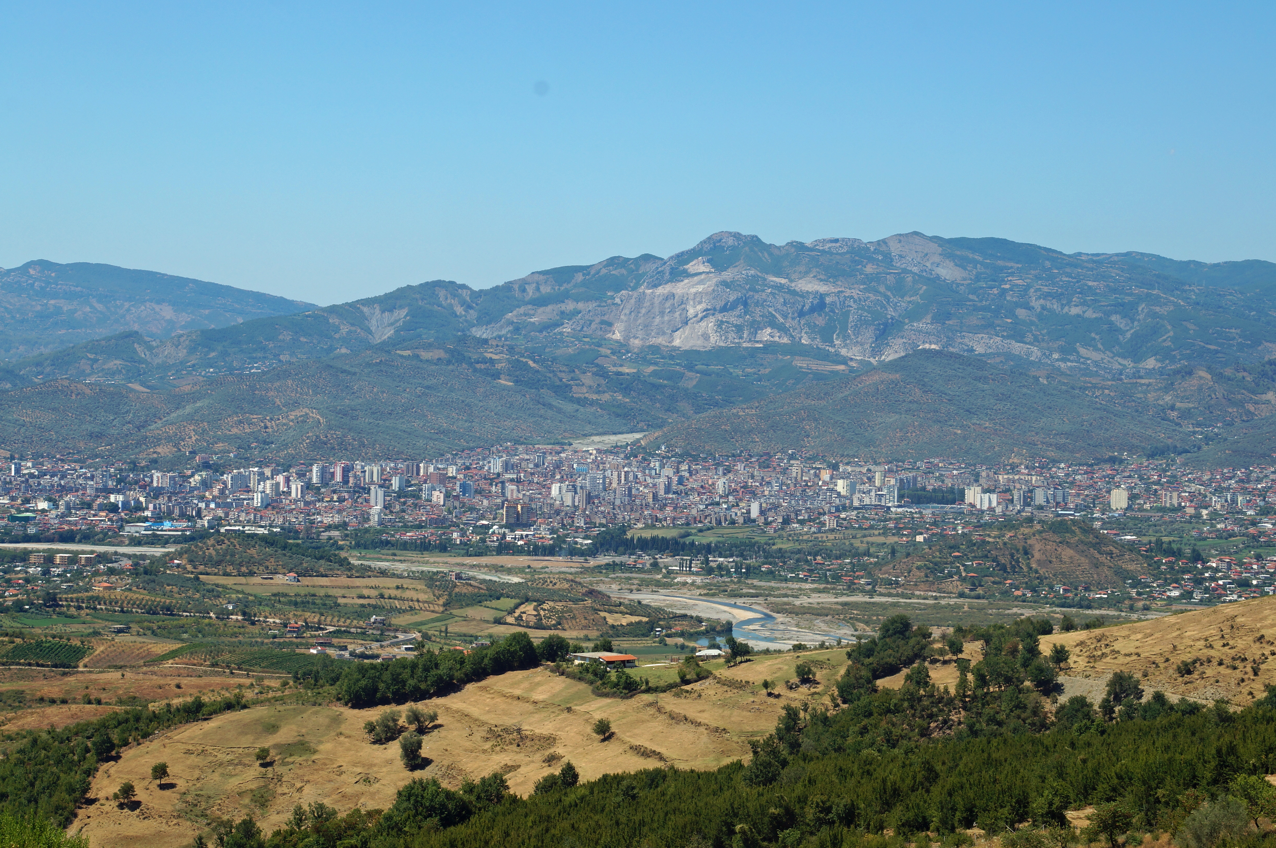 The city of Elbasan in Central Albania seen from the mountains in the South at Shelcan